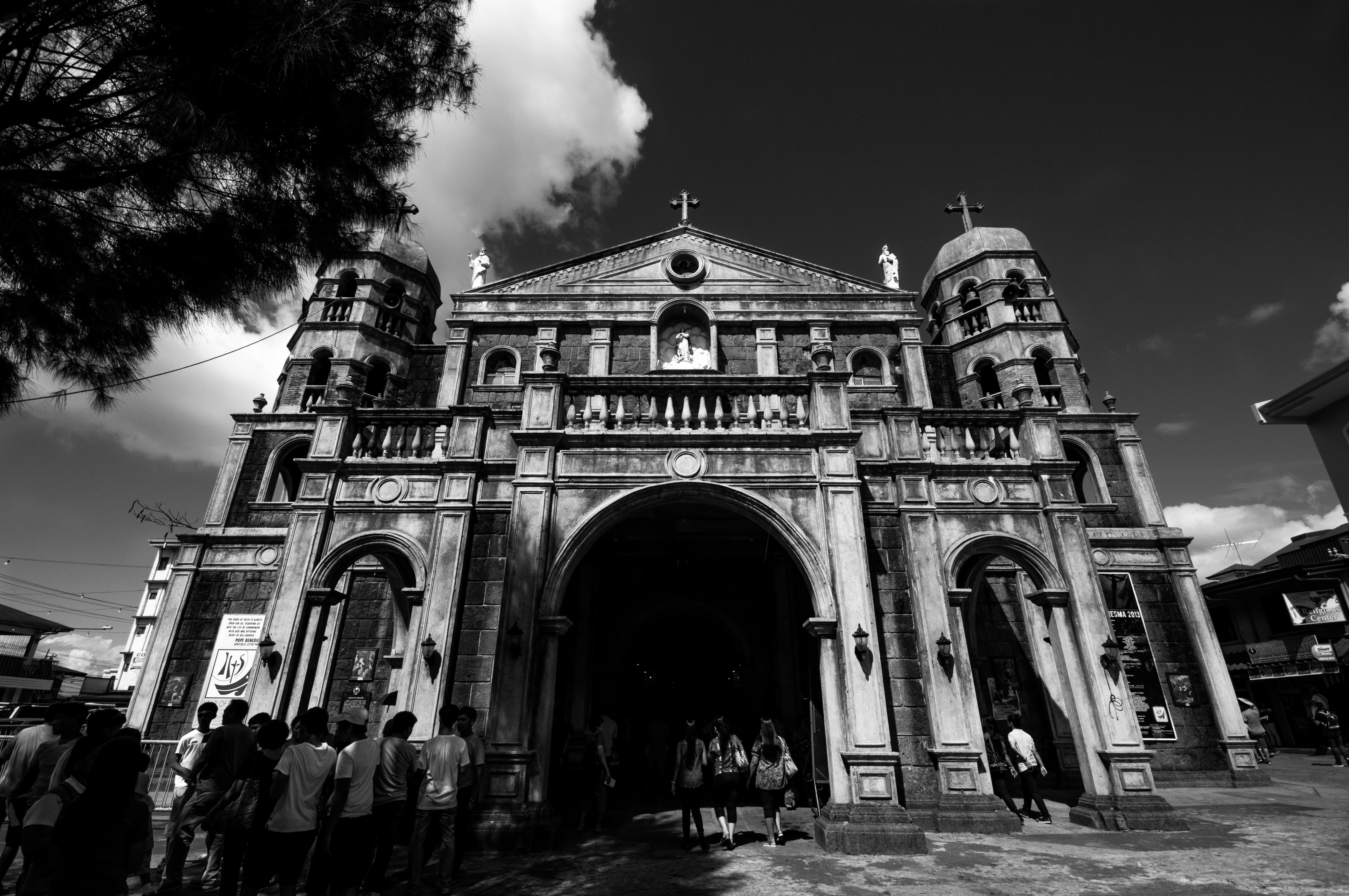 The Church of Immaculate Conception at Dasmarinas, Cavite.